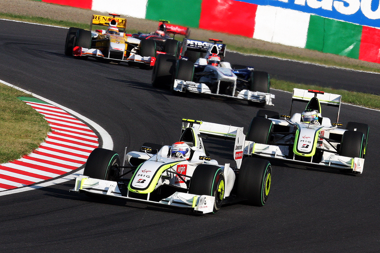 Formula One 2009 Rd.15 Japanese GP with 4 laps to go: Rubens Barrichello (Brawn) taking lead against Jenson Button.